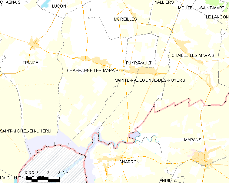 Map of French municipality Puyravault